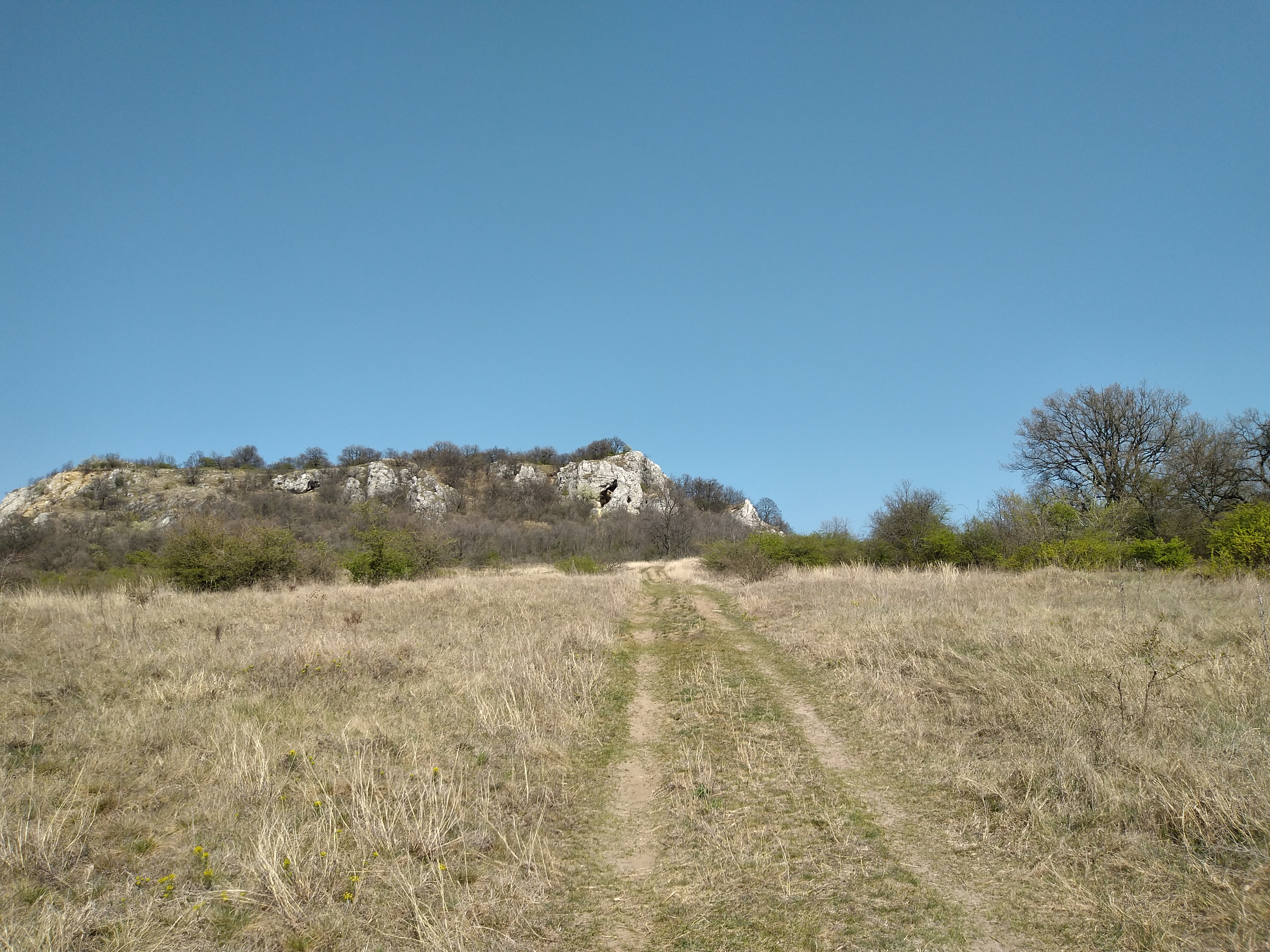 Surroundings of Strázsa-hegyi Cave.